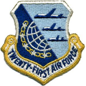 Early emblem of the USAF 21st Air Force, based on the MATS Eastern Transport Air Force Emblem, 1966